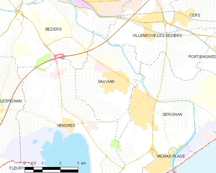 Map commune FR insee code 34298.png - Sauvian